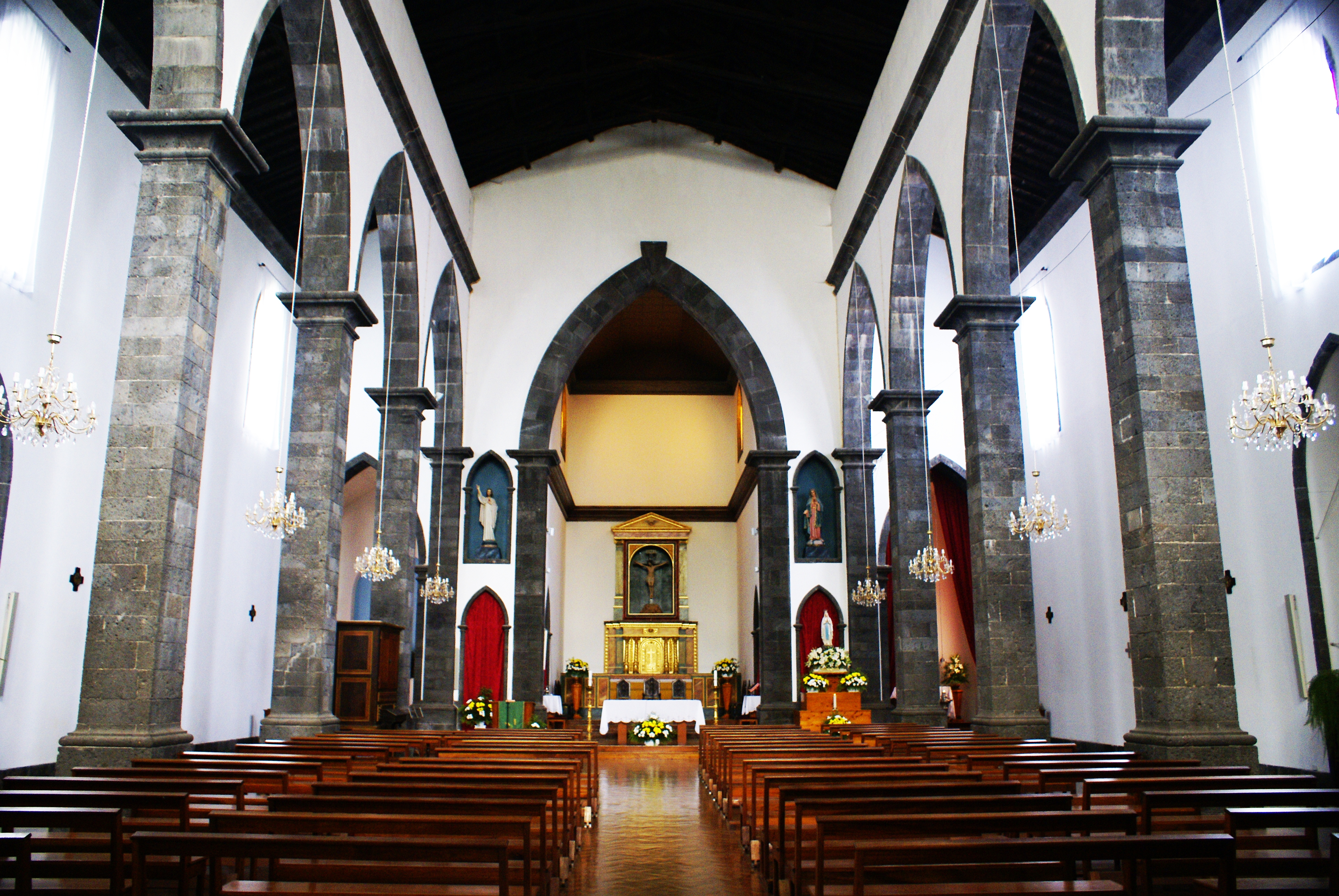 Nave of the Church Santíssima Trindade, Lajes, Pico (Azores), Portugal